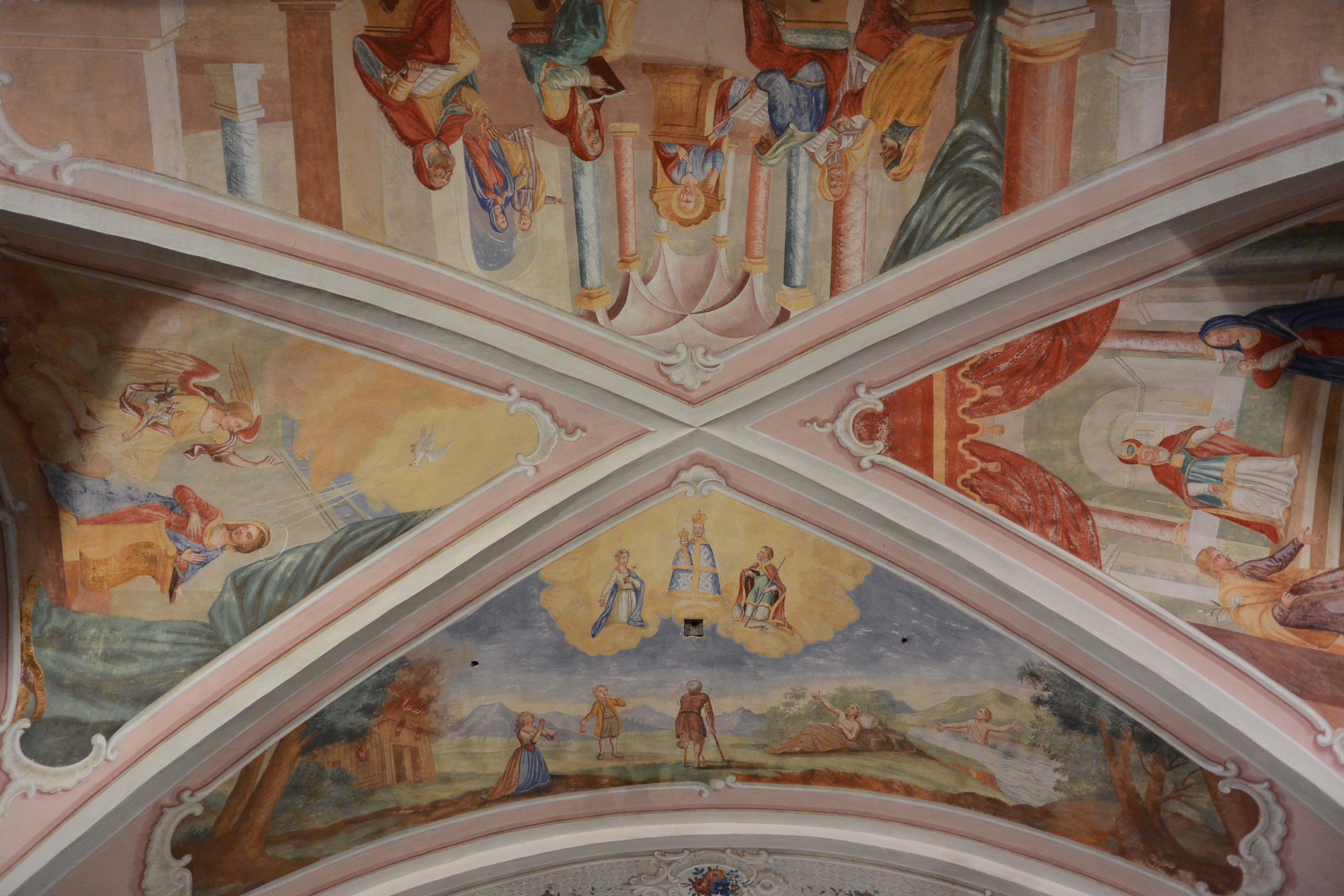 Church at the Lisnaberg in the community of Ruden - vault-frescos